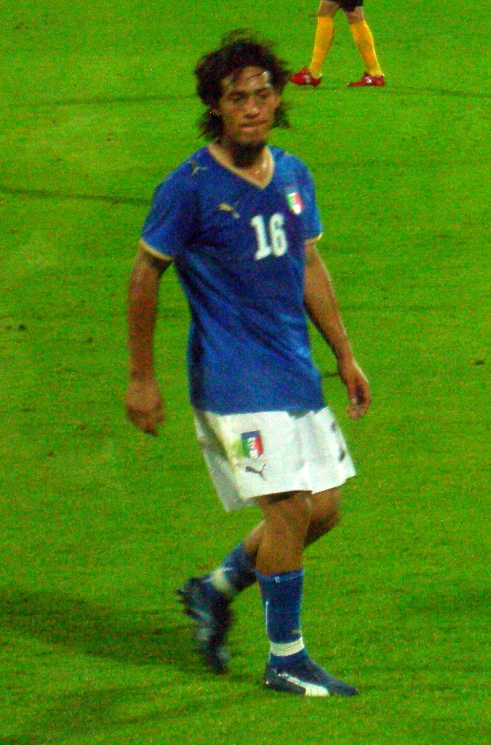 Player photo, made during the friendly football match Italy vs Belgium, played May 30, 2008 in Florence (Italy)